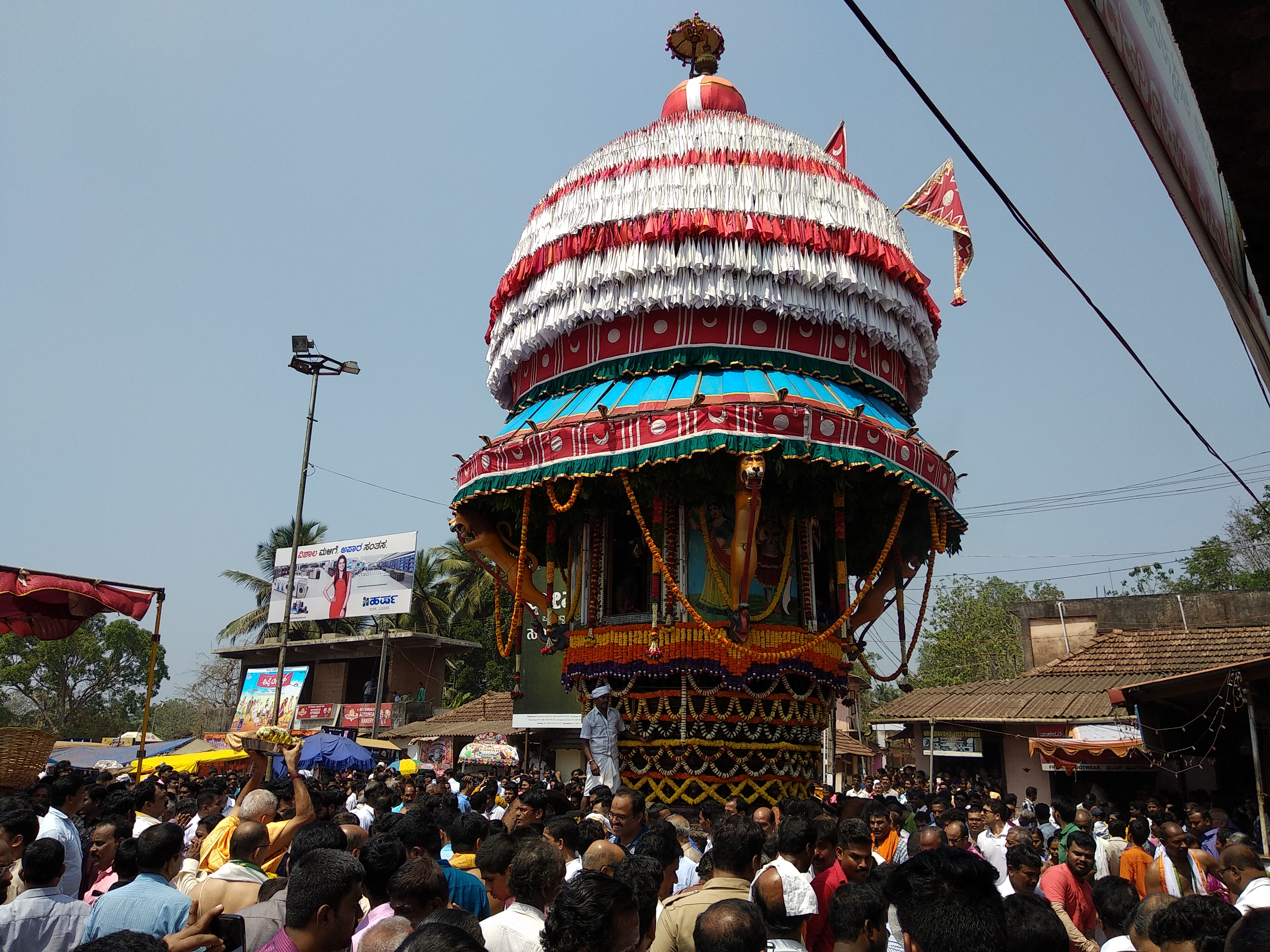 Mundkur Village, Karkal Taluk Udupi district, Karnataka India ಕನ್ನಡ: ಮುಂಡ್ಕೂರು ಗ್ರಾಮ, ಕಾರ್ಕಳ ತಾಲೂಕು ಉಡುಪಿ ಜಿಲ್ಲೆ, ಕರ್ನಾಟಕ